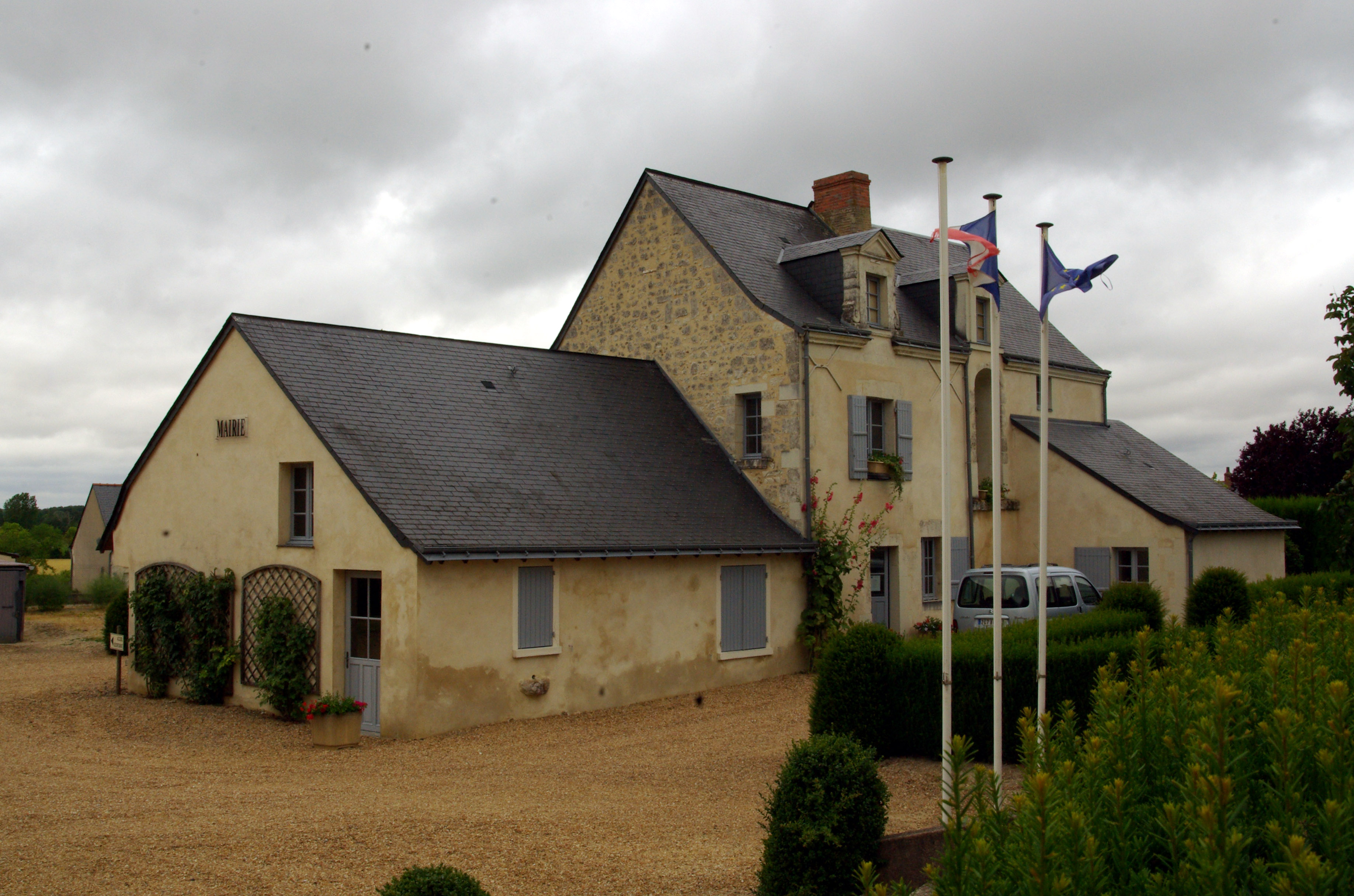 City Hall Lué-en-Baugeois